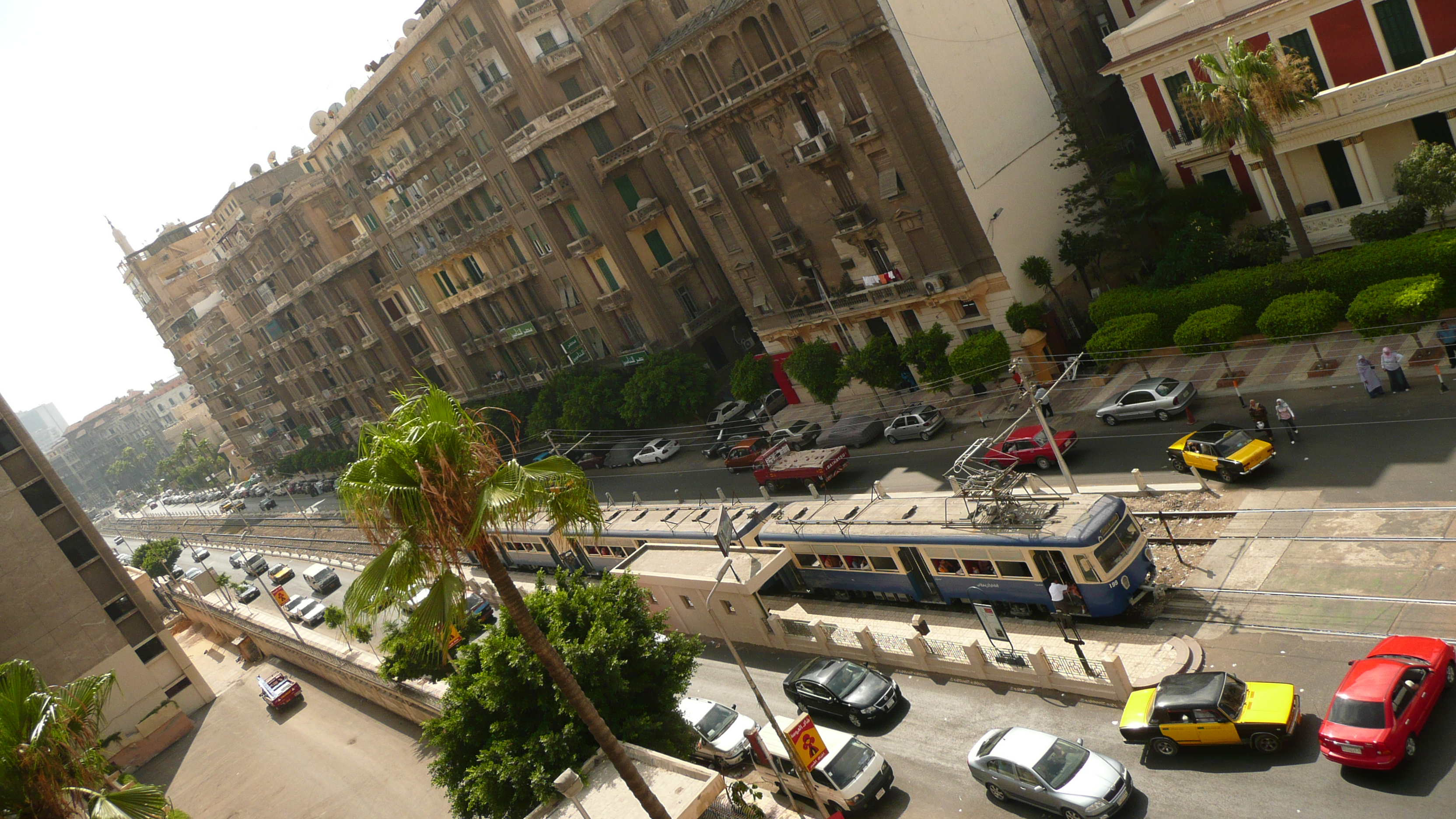 Aerial photograph of the Alexandria tram line, taken from the Delta Hotel